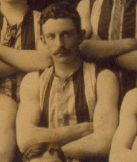 Photograph of Rhoda McDonald in 1896.